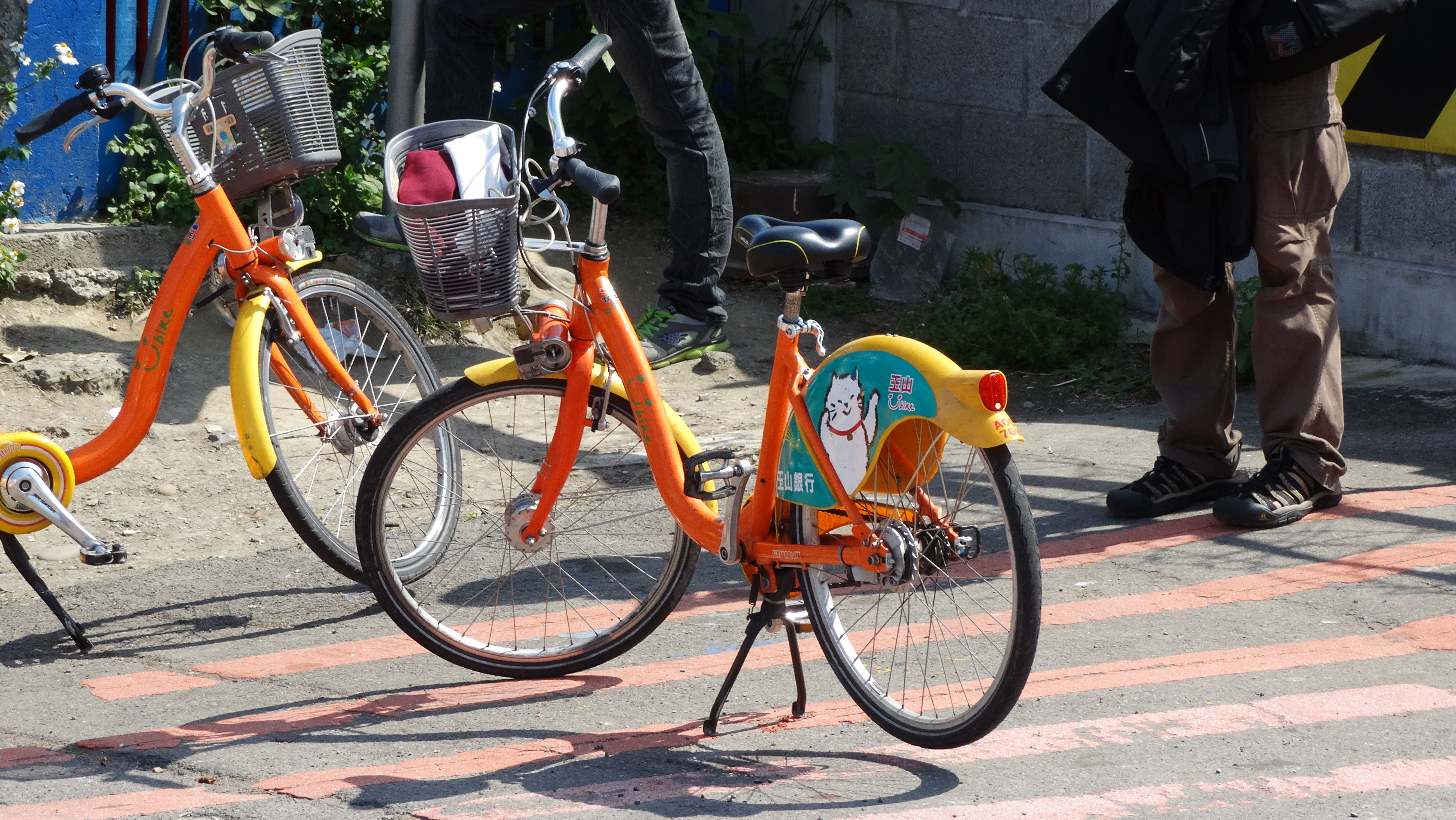 E.SUN Bank advertising version of YouBike.